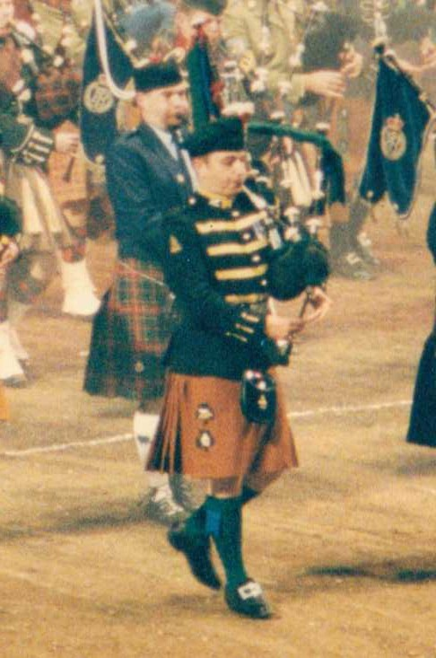 Tpr Paul J Ashfield of the Queen's Royal Hussars Pipe Band. 1999 The Last Royal Tournament - Earls Court, London.